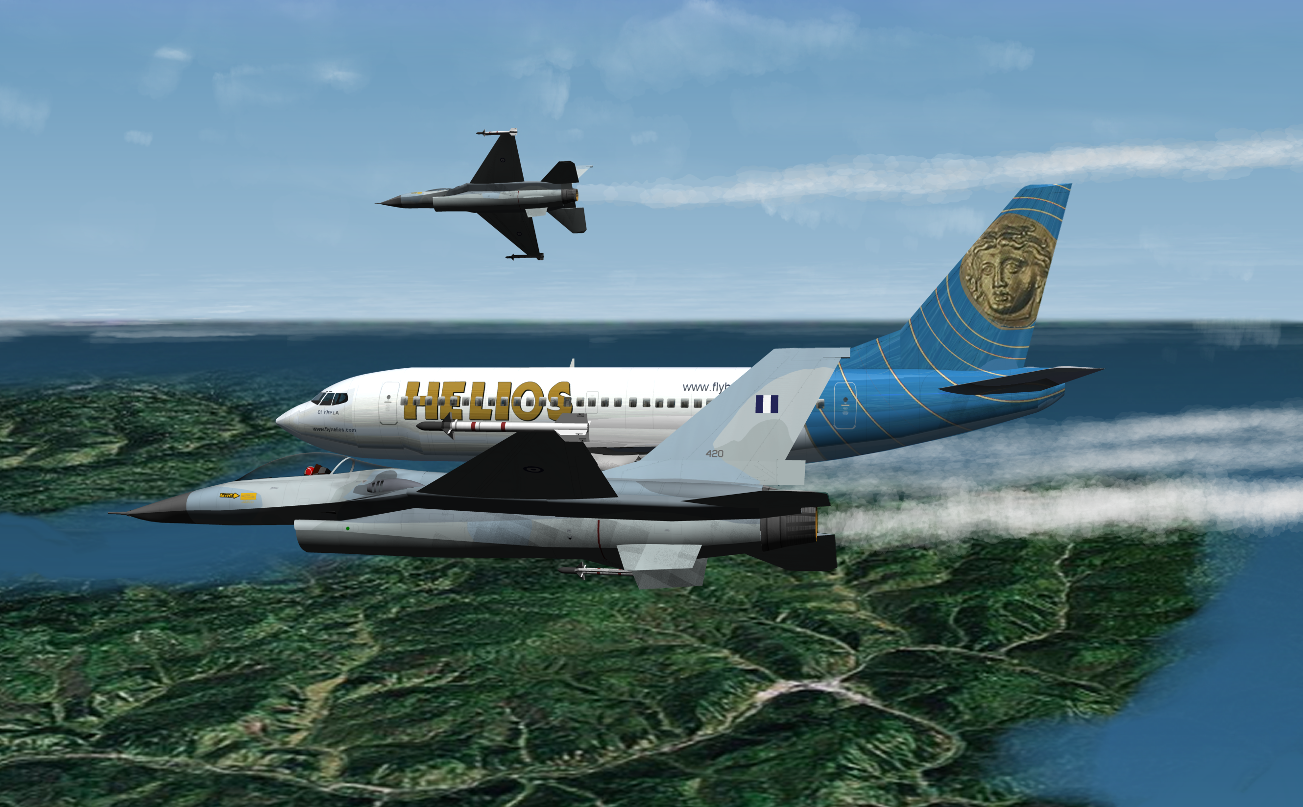 Computer generated image showing Helios Airways Flight 522 under close visual inspection by two Hellenic AF F-16s